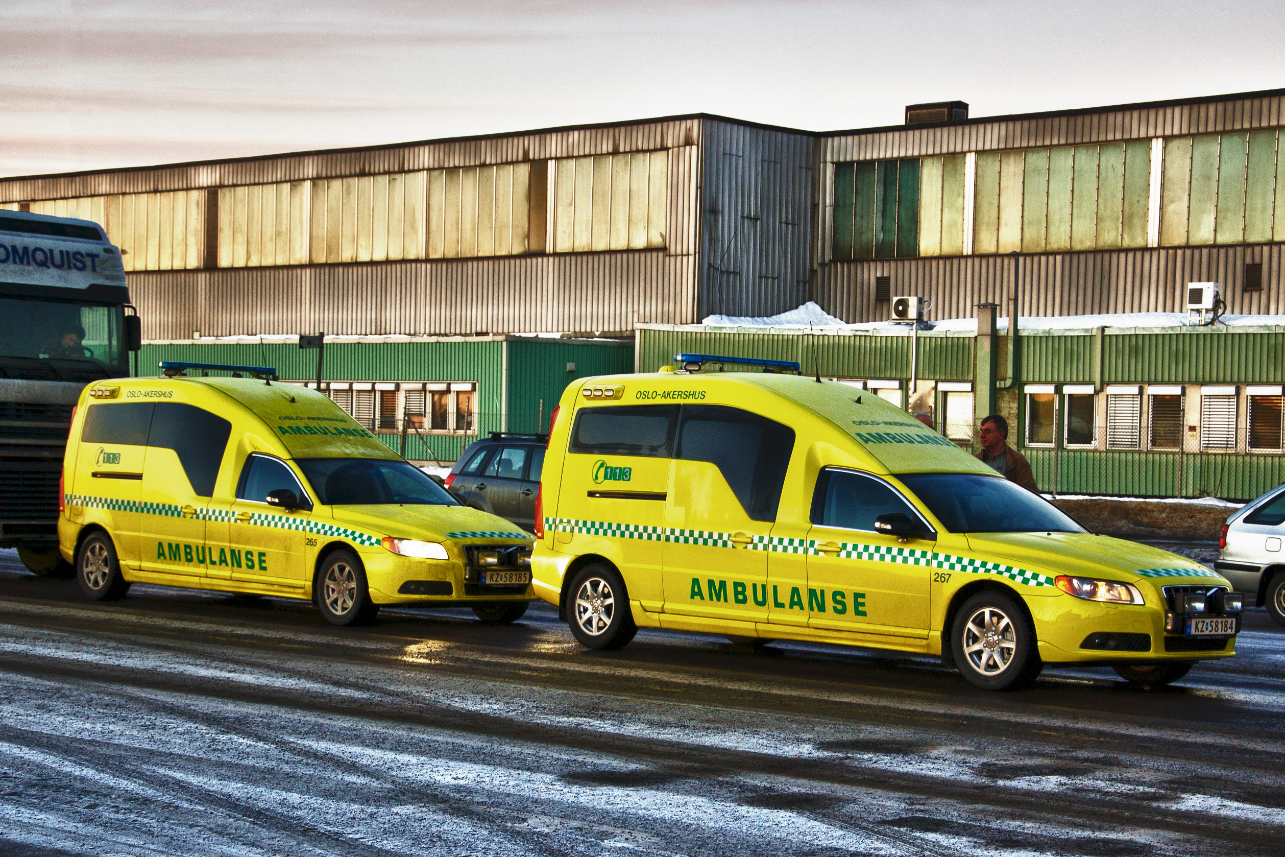 Two Volvo ambulances, Norway.